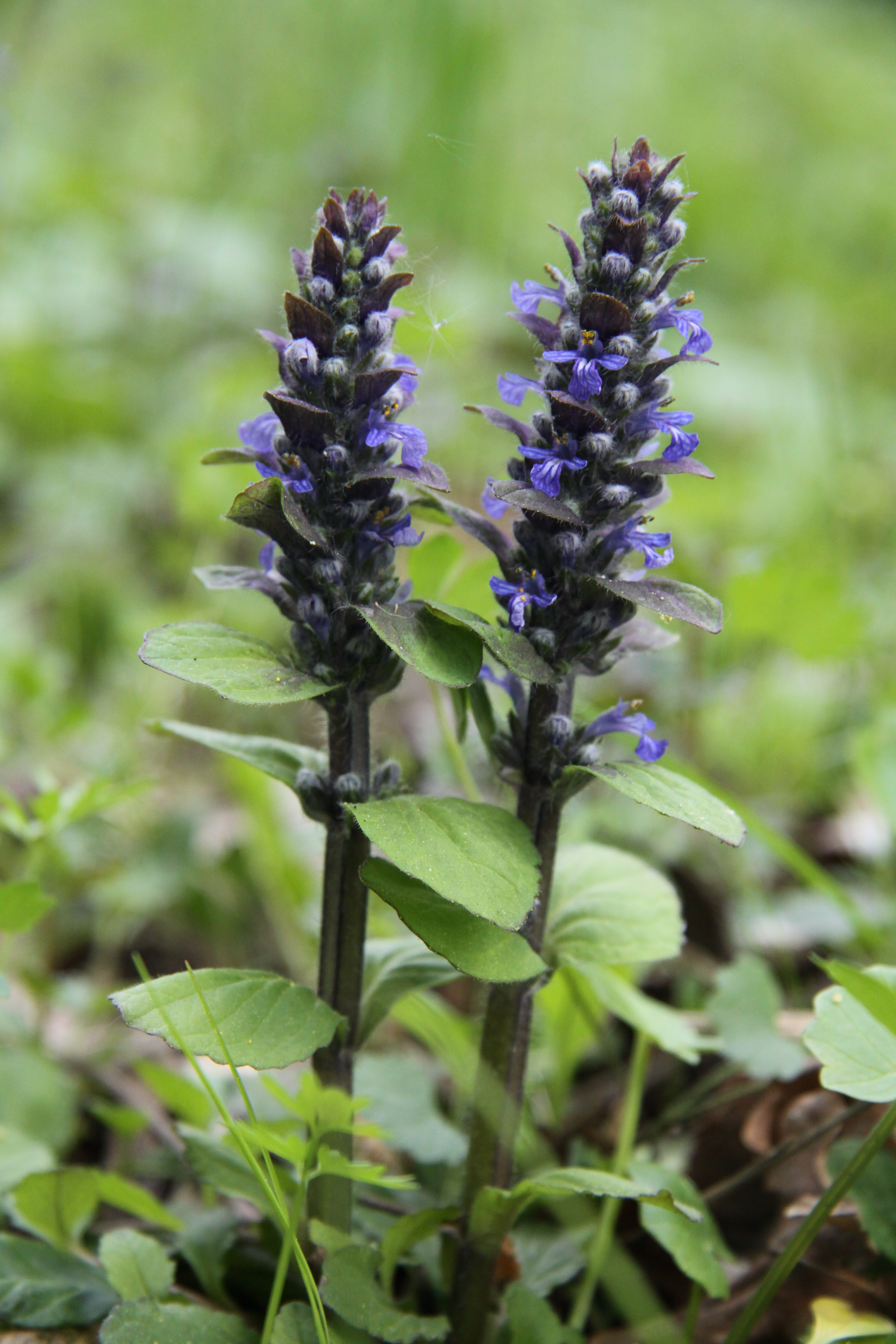 Ajuga reptans in natural reserve Mokřiny u Vomáčků near Zliv, České Budějovice District, Czech Republic. - Google Maps - Google Earth